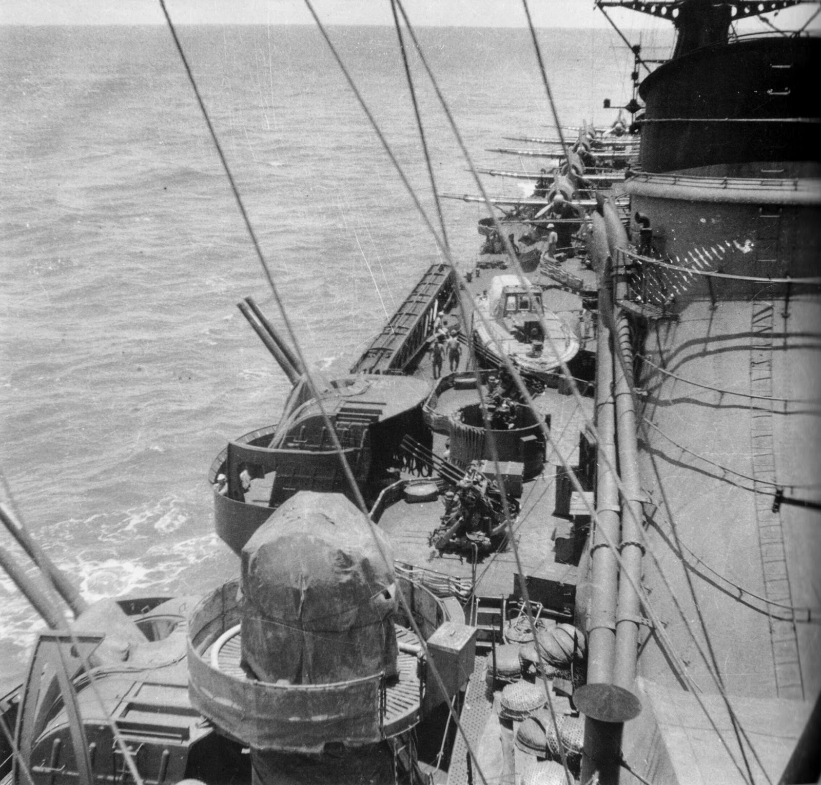 The starboard side of the Mogami after conversion as an aircraft cruiser, august 1943.